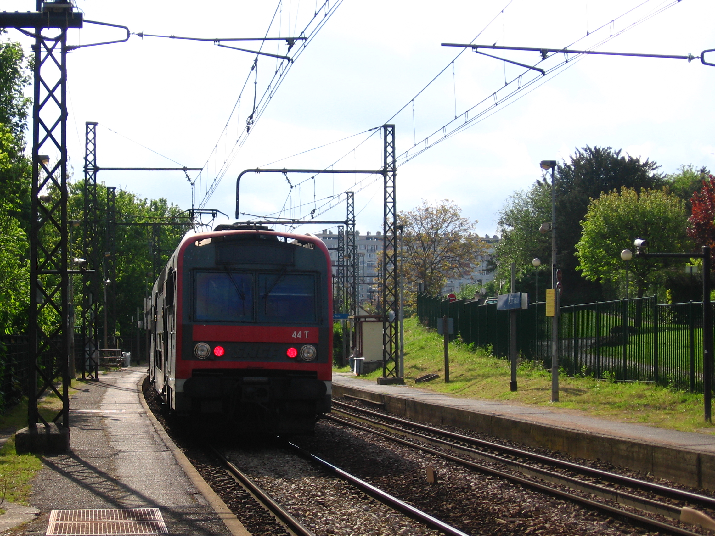 An Z 5600 EMU in Petit-Vaux station (France) is ready for departure to Paris.